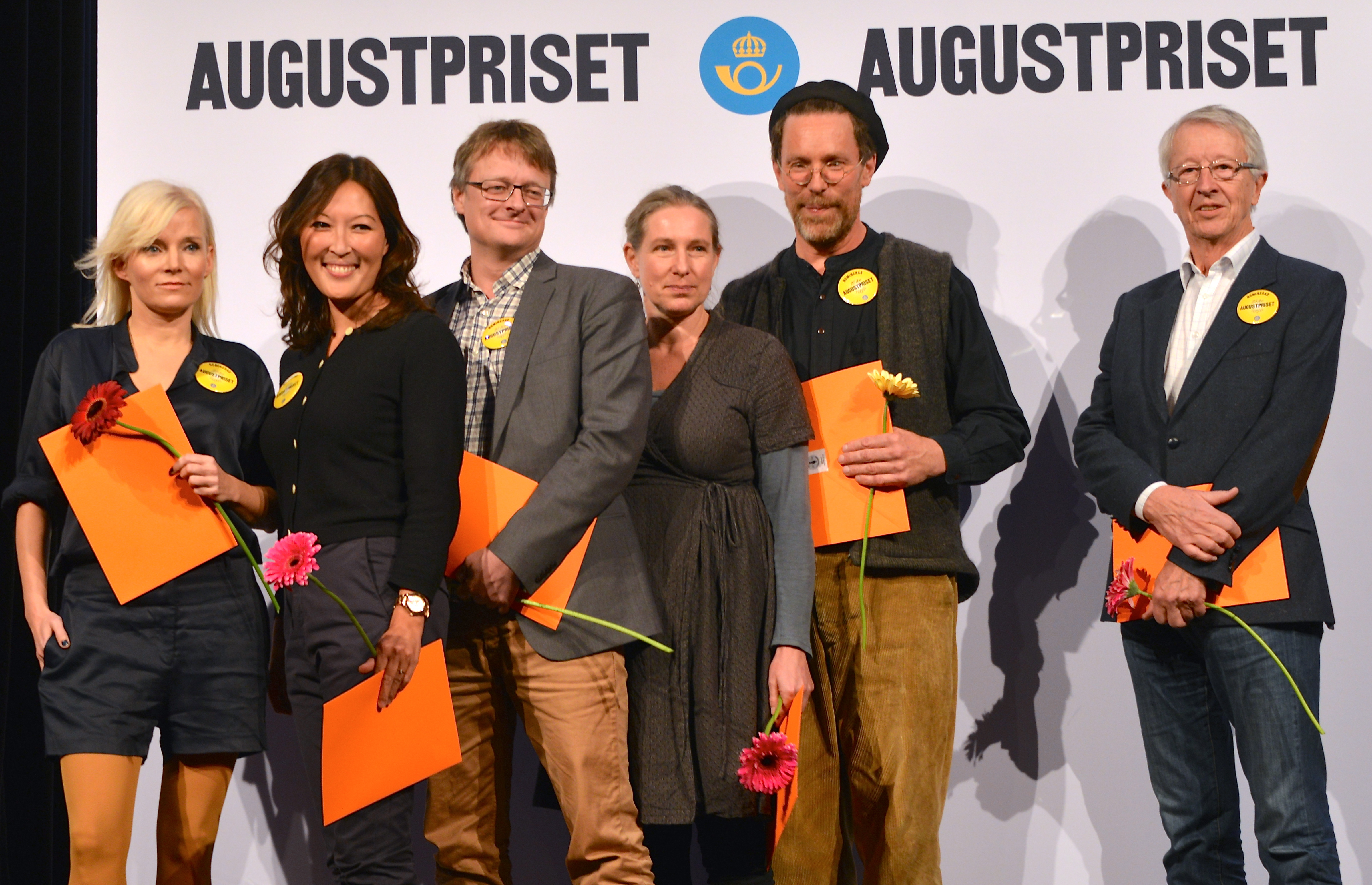 Nominated for the August Prize in the category of non-fiction in 2013. From left: Bea Uusma, Lena Sundström, Dan Josefsson, Marie Mandelmann, Gustav Mandelmann and Tore Janson.